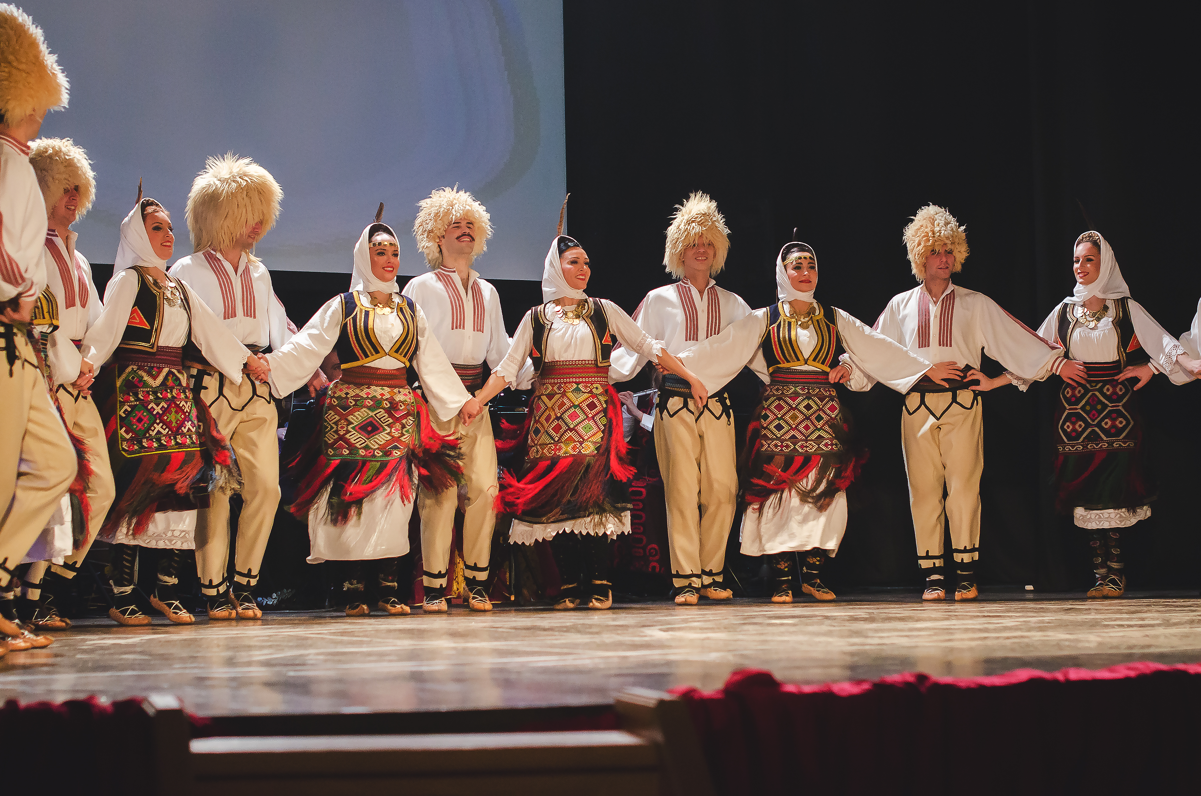 Srpski (latinica): This photo has been taken in the country: Bosnia and Herzegovina